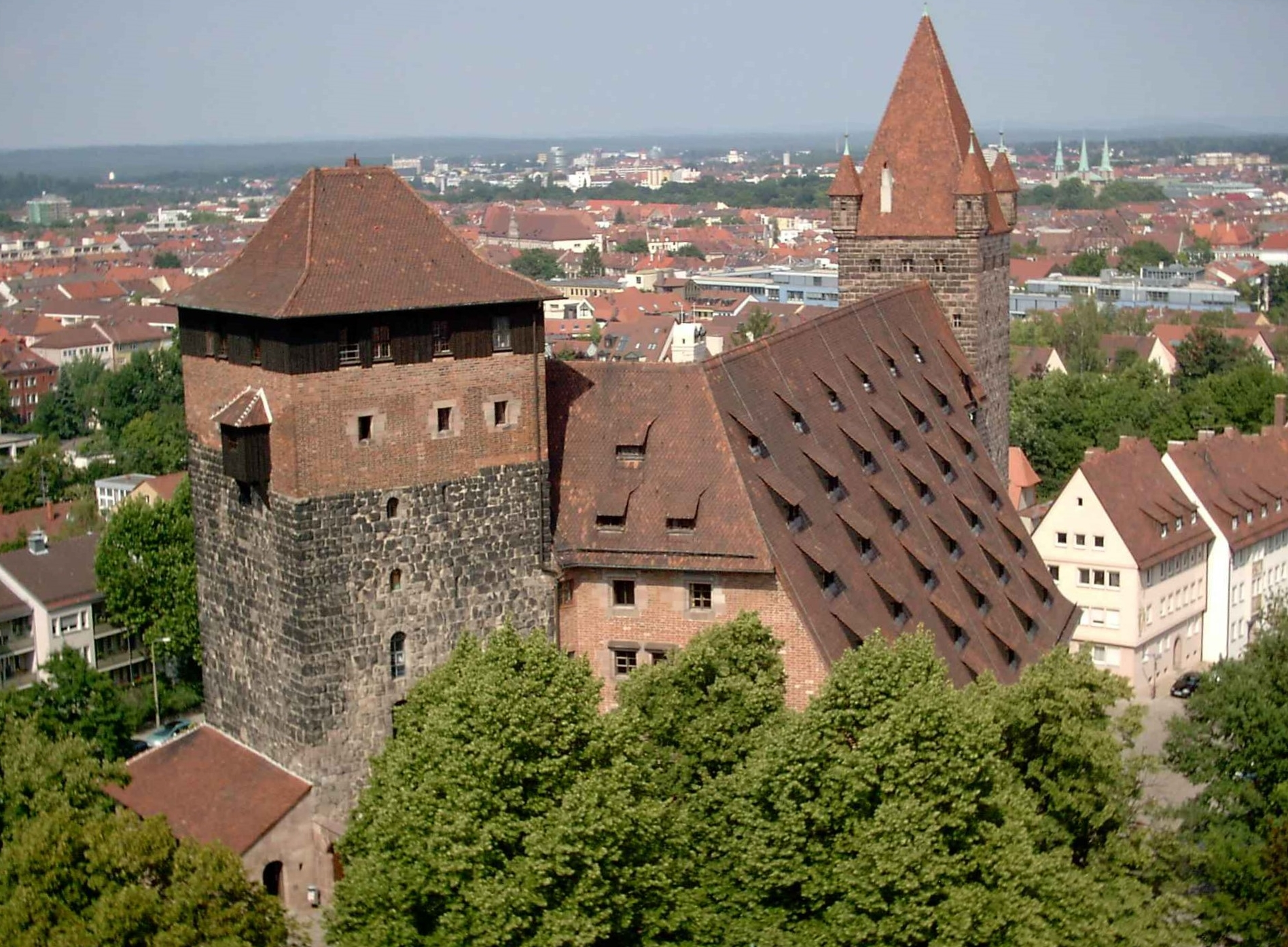 Nuremberg Youth Hostel (part of the 500 year old castle complex)